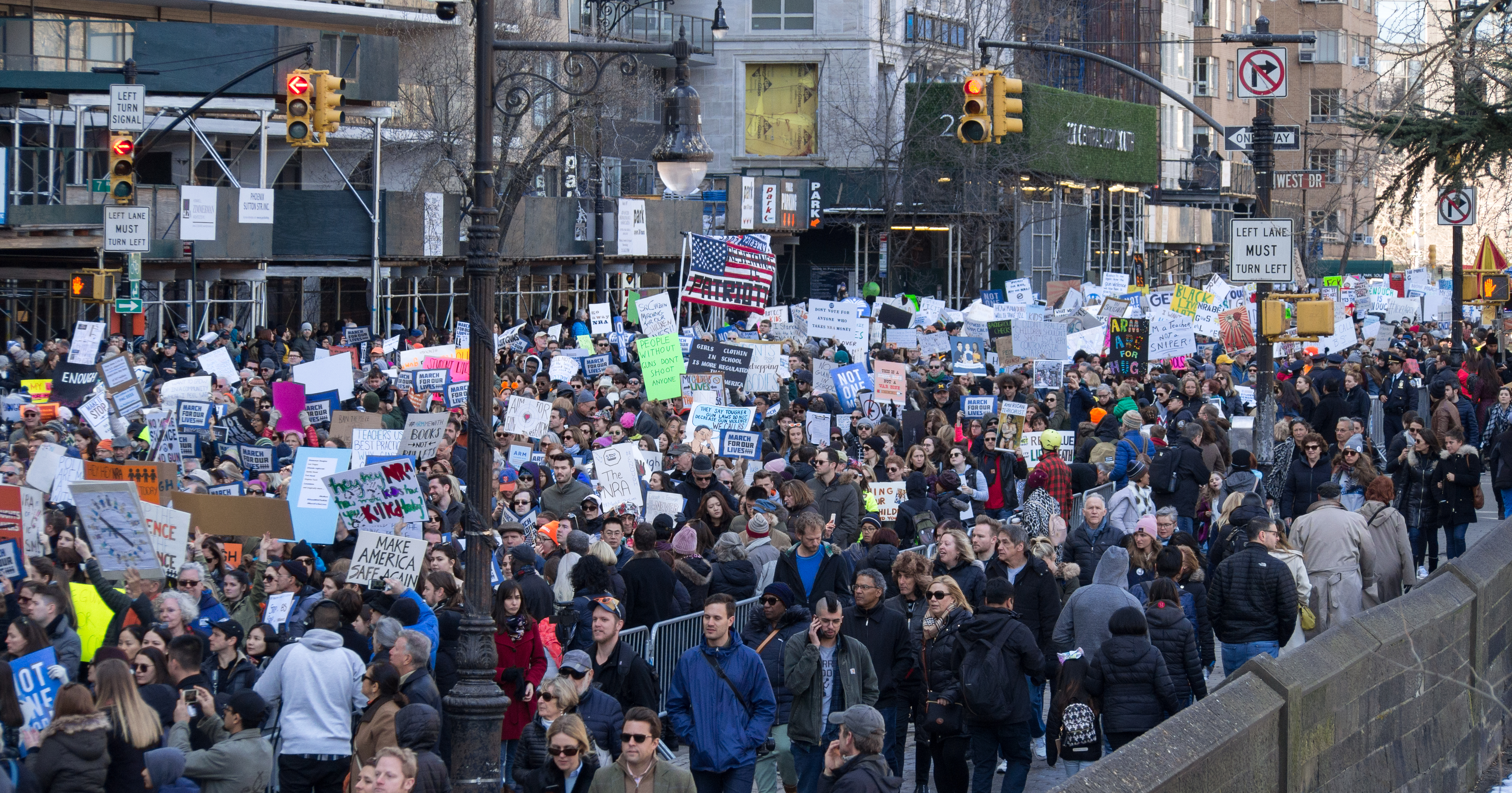 March for Our Lives in Manhattan, New York City, in March 2018